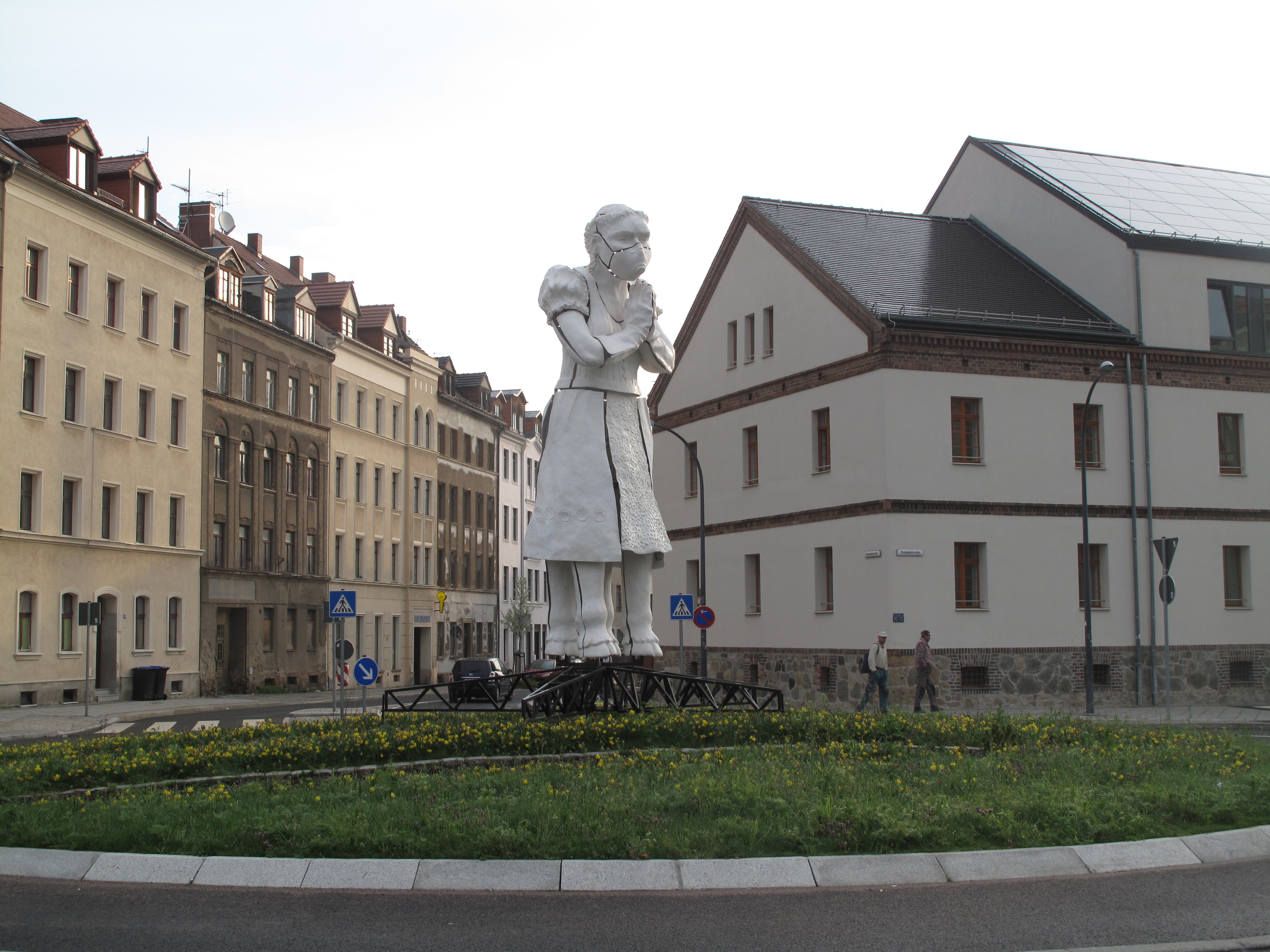 Work of Art "Maske" (english:´mask´) by Marianne Wesołowska-Eggimann as part of Görlitzer ART 2016